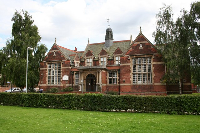 Cobden Street Library. Tudor style public library by Scorer & Gamble in 1905